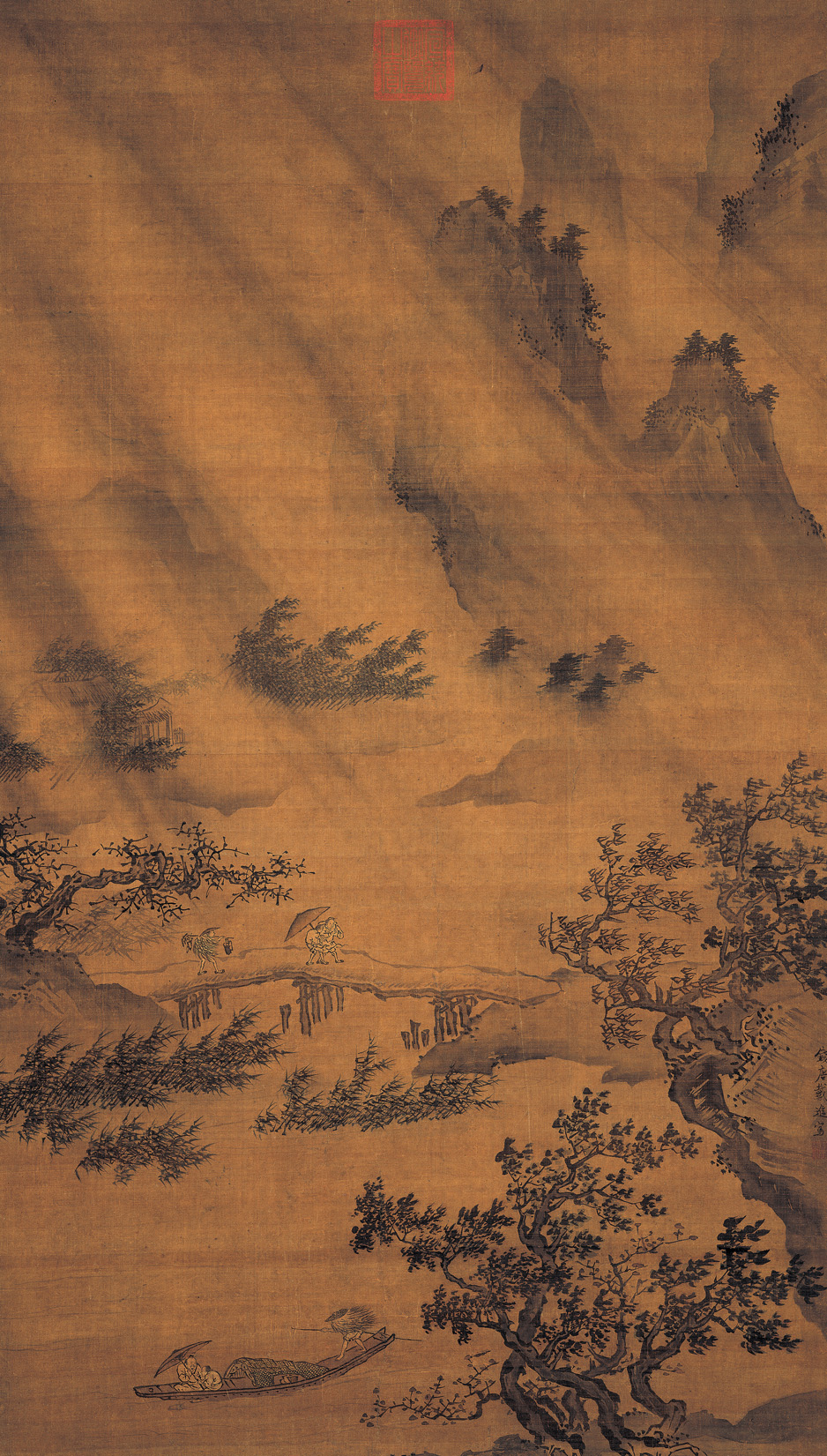 Wind and Rain, Returning by Boat, hanging scroll, color on silk, 143 x 81.8 cm. Located at the National Palace Museum.